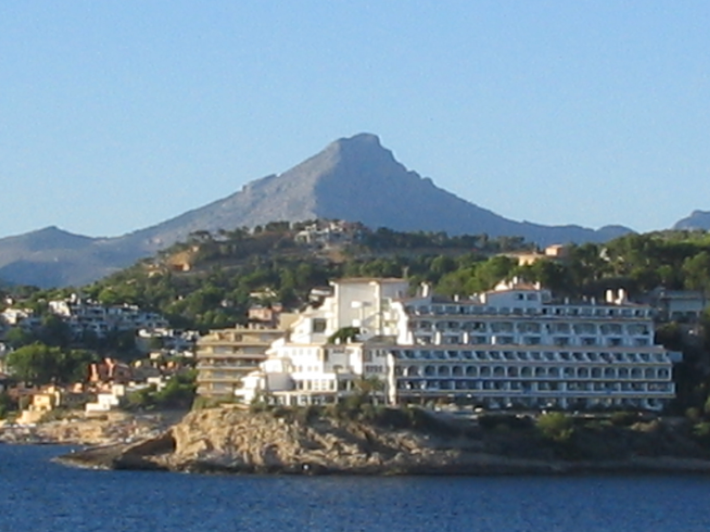 Bay of Santa Ponsa. A holiday resort in Mallorca. The mountain at the bottom is called Puig de Galatzo in la Sierra de tramuntana.